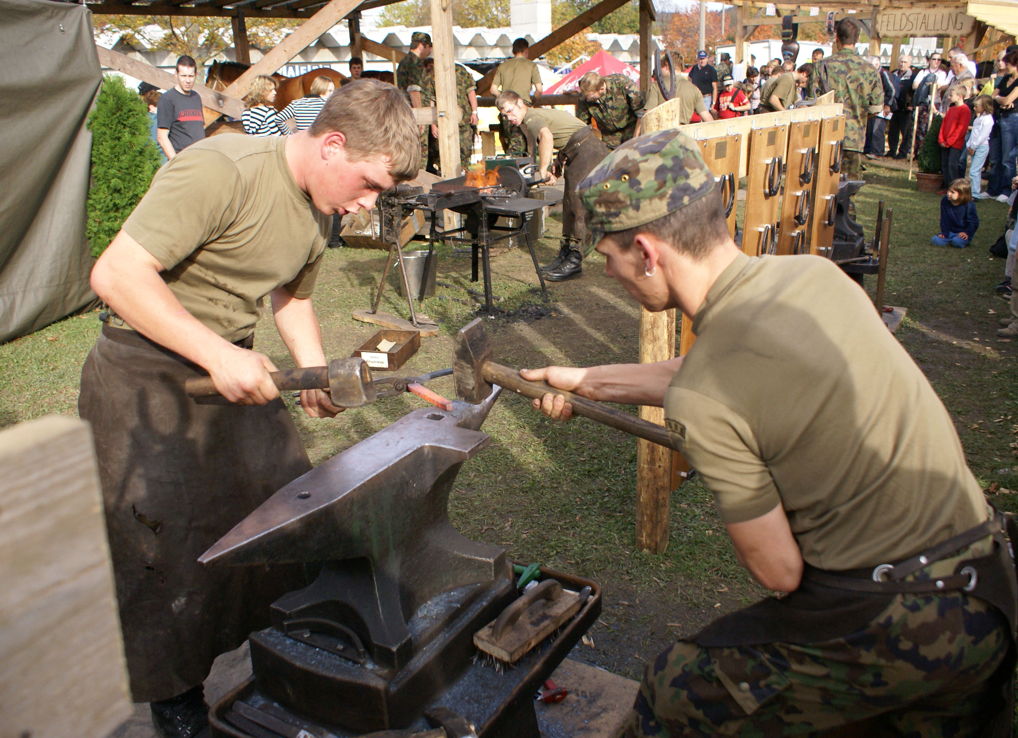 Swiss Army farriers.